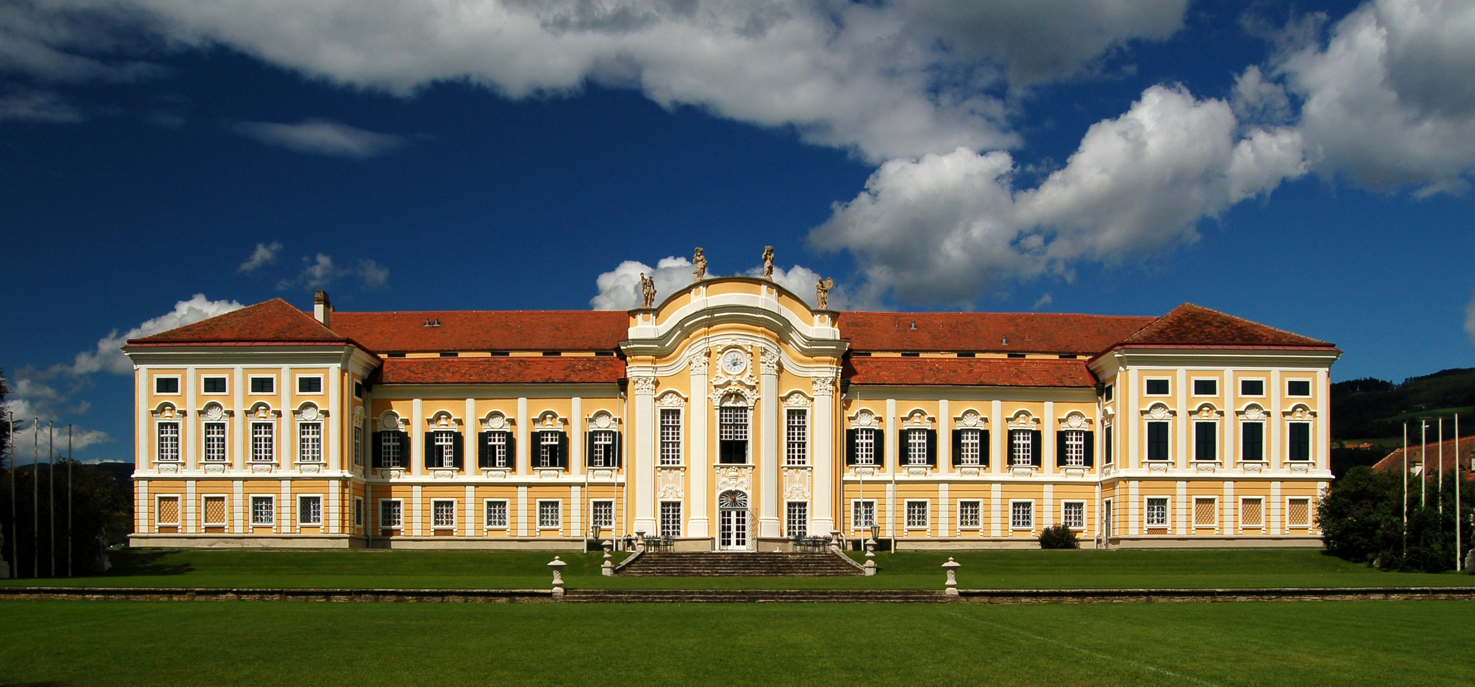 Schloss Schielleiten, south front, Styria